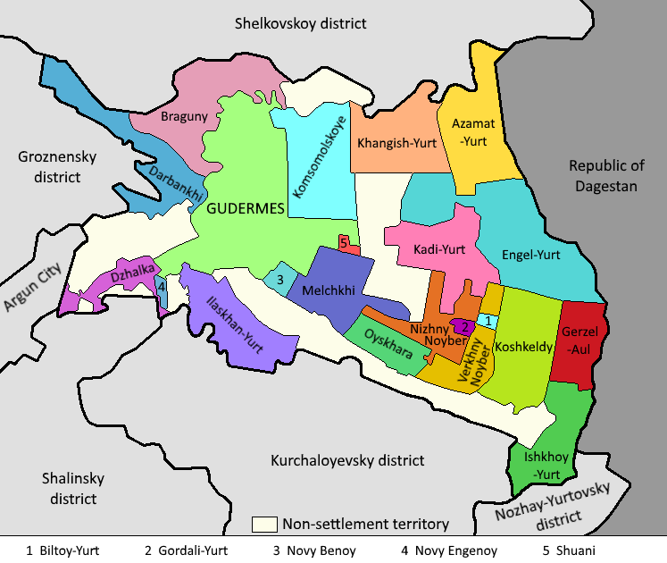 Outline map of Gudermessky District with settlements.